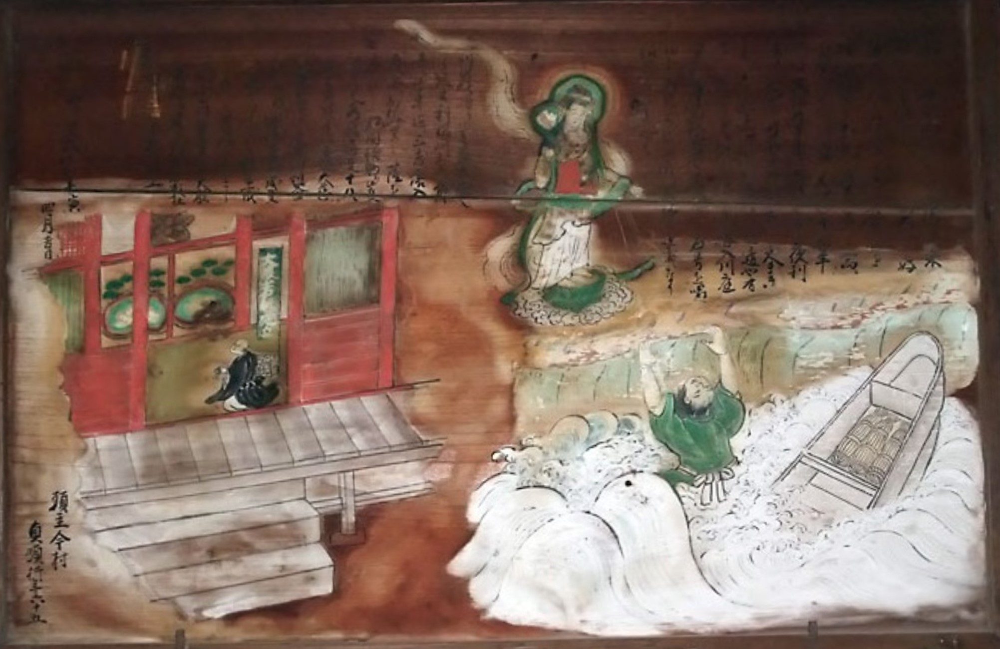 Board with inscription and picture, depicting the getting of a little Kannon-figure for Ryûshô-in.